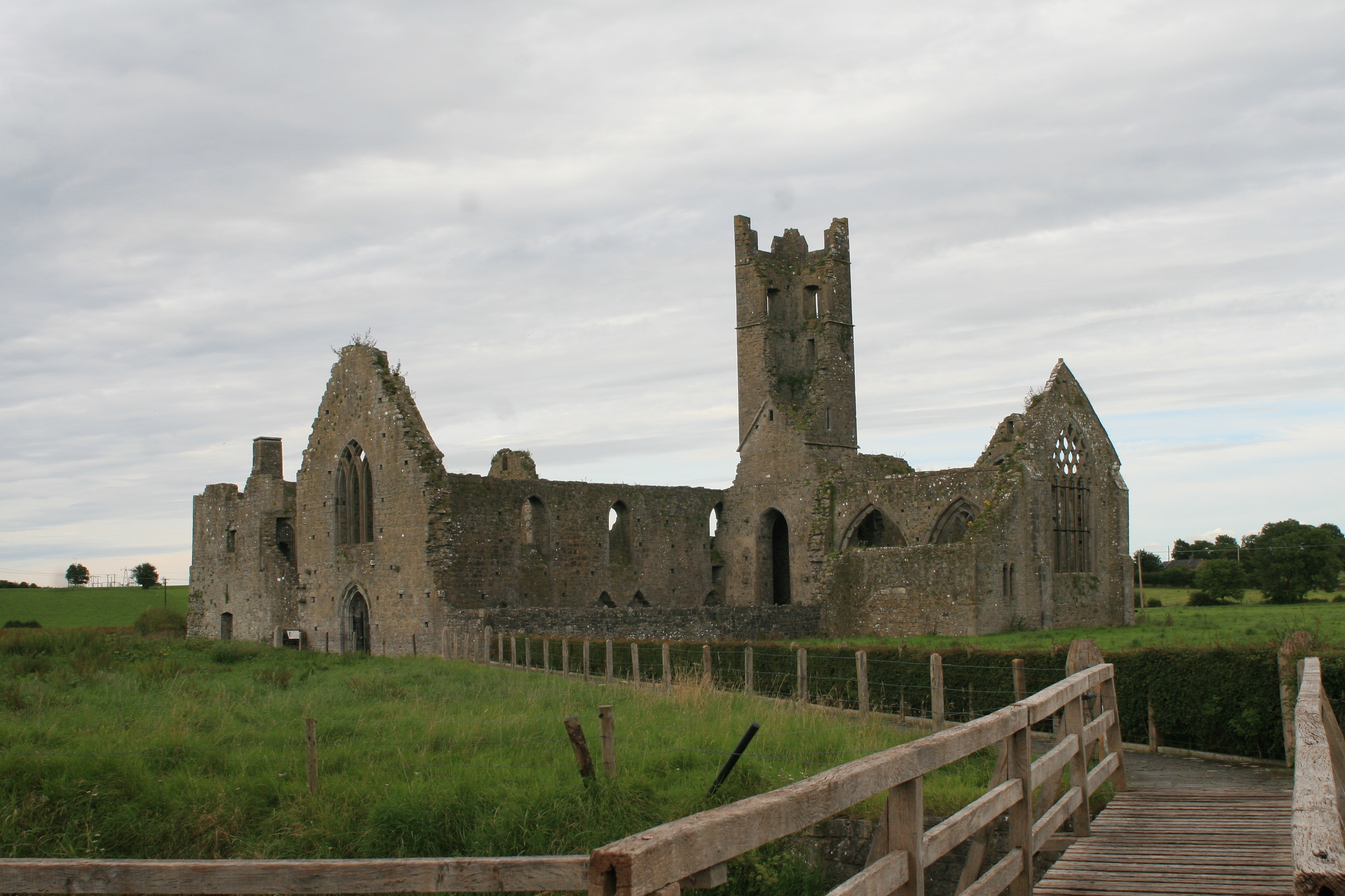 Kilmallock Priory, County Limerick, Ireland View of the priory from southwest